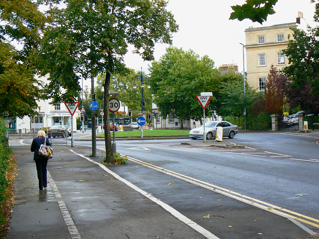 Lansdown Road near the Gordon Lamp, Cheltenham The lamp with its three visible white globes can be seen on the roundabout. It is said to commemorate General Charles Gordon 'Gordon of Khartoum'. There is a wiki article about him which, surprisingly, doesn't mention the lamp Charles_George_Gordon That made me wonder whether the lamp doesn't in fact commemorate another General Gordon, one of two famous generals who may have invented London gin, the other one being a General Booth. Since the only reference I have for that contention is a mention in the film 'The Titfield Thunderbolt', it's probably best to discount that possibility.